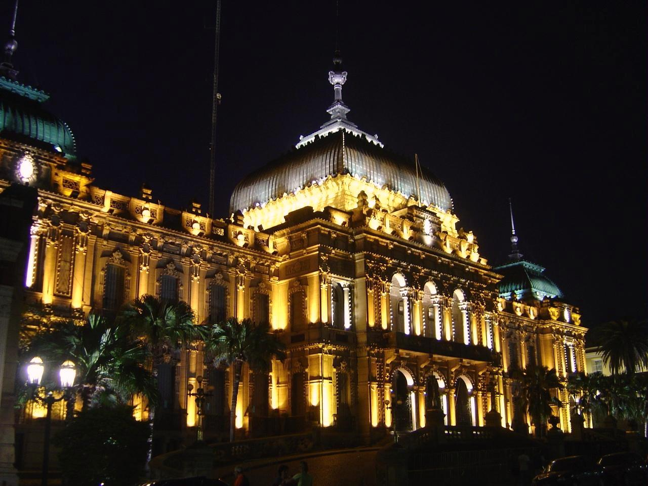 The Tucumán Province Governor's executive office building. San Miguel de Tucumán, Argentina.